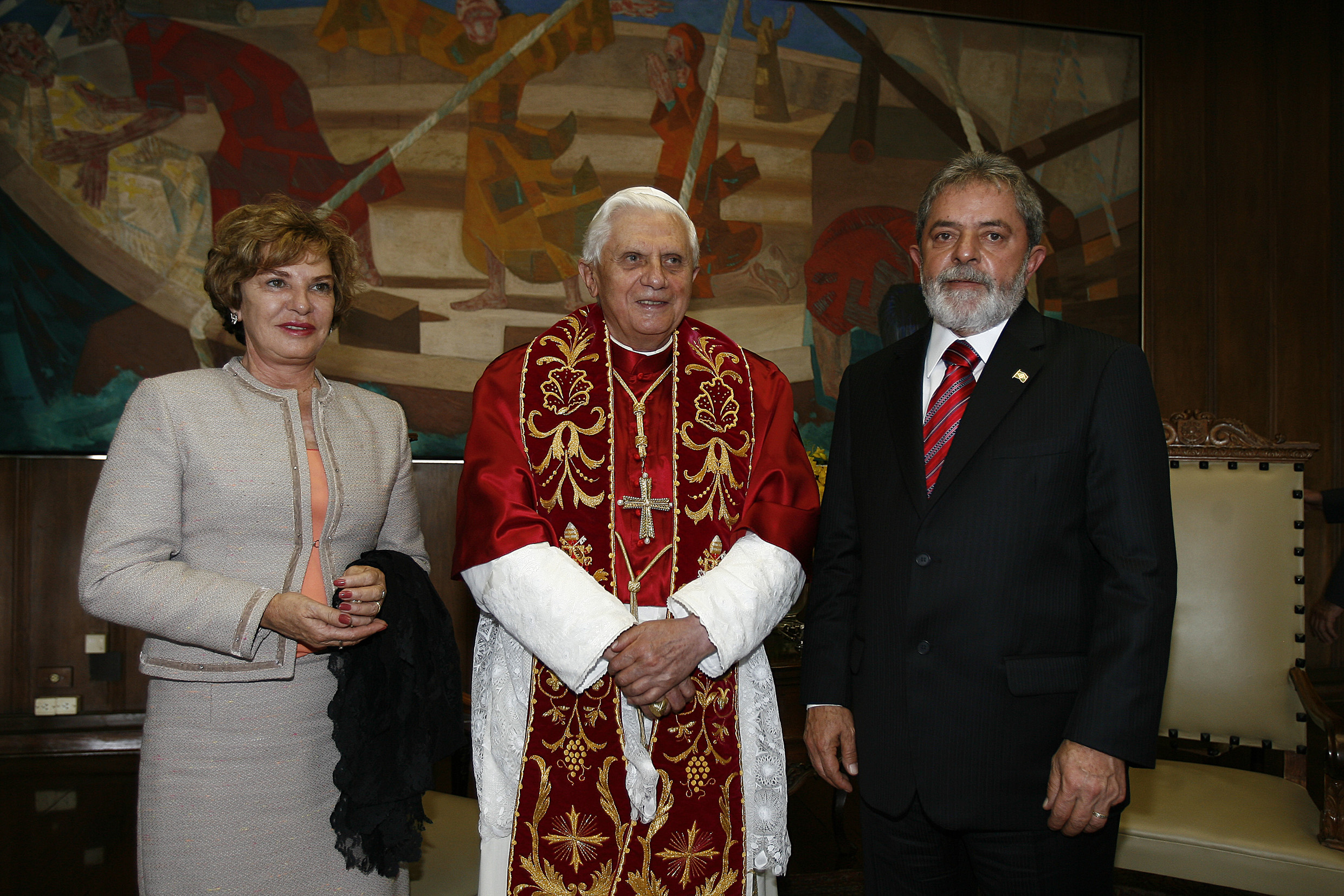 Pope Benedict XVI in the Palácio dos Bandeirantes, official residence of the governor of the state of São Paulo.